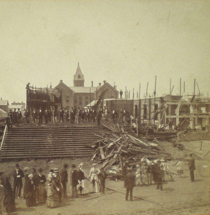 A view of the rubble of the Precious Blood Church fire from across Cabot Street, the partially complete second brick church building is partially completed to the right. The rectory building behind both still stands and is used by Providence Ministries as of 2018.